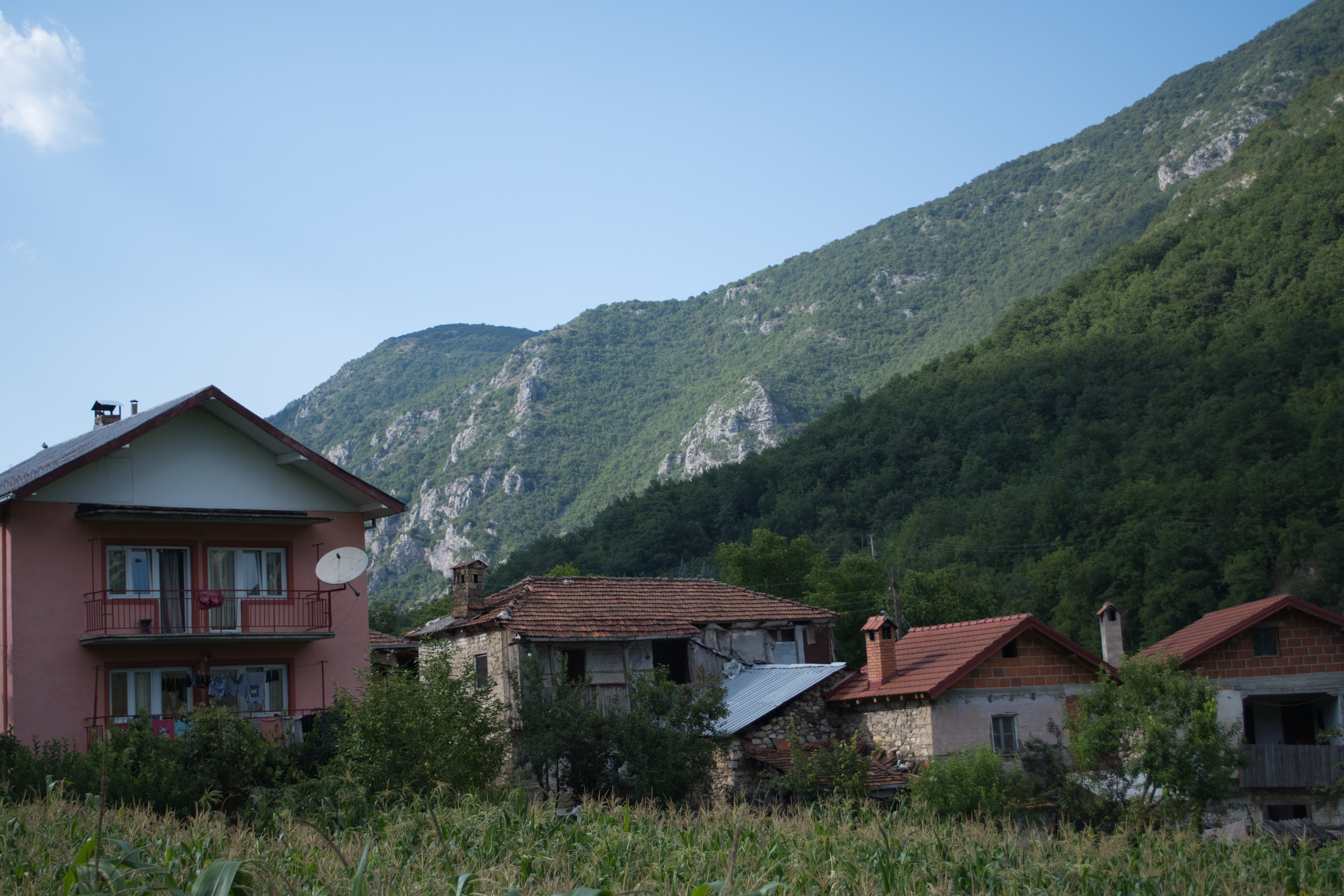 Houses in the village of Lukovo